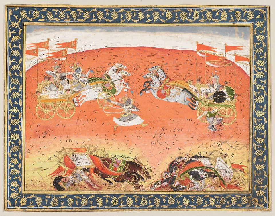 Obverse: The Slaying of the Demon Pralamba. Reverse: The Fight between Arjuna and Karna Indian, Rajasthani, about 1740 Bundi or Kota, Rajasthan, Northern India Dimensions Overall: 28.3 x 36.7cm (11 1/8 x 14 7/16in.) Framed: 42.5 x 52.7 cm (16 3/4 x 20 3/4 in.) Medium or Technique Opaque watercolor and gold on paper